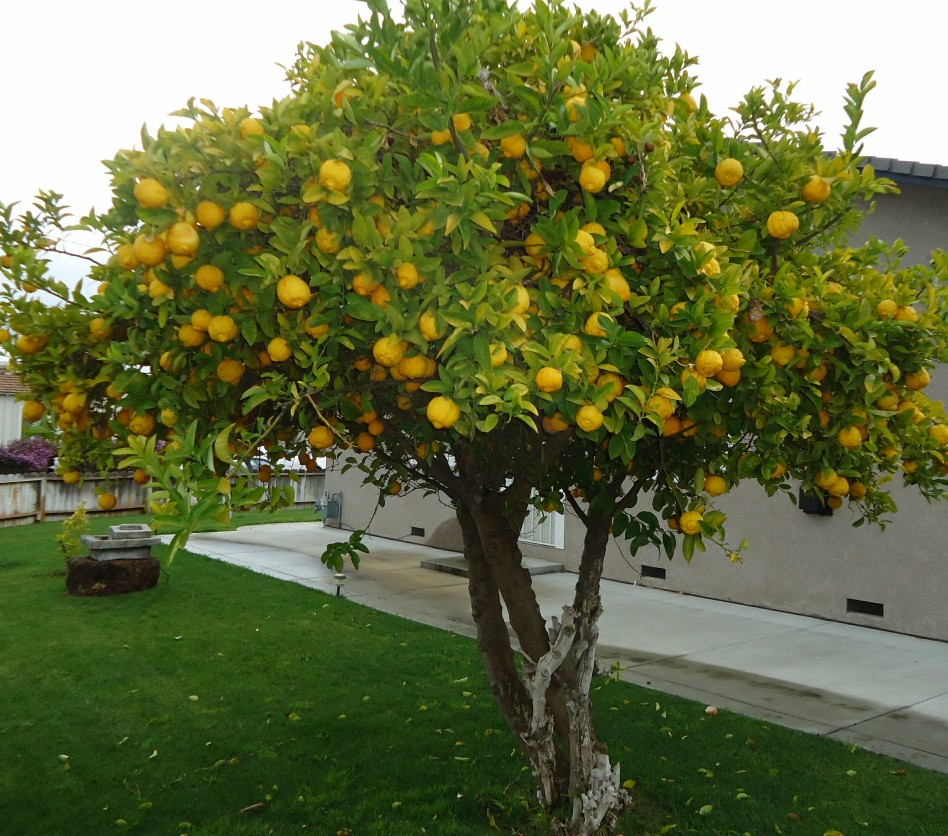 Lemon tree in Santa Clara, California